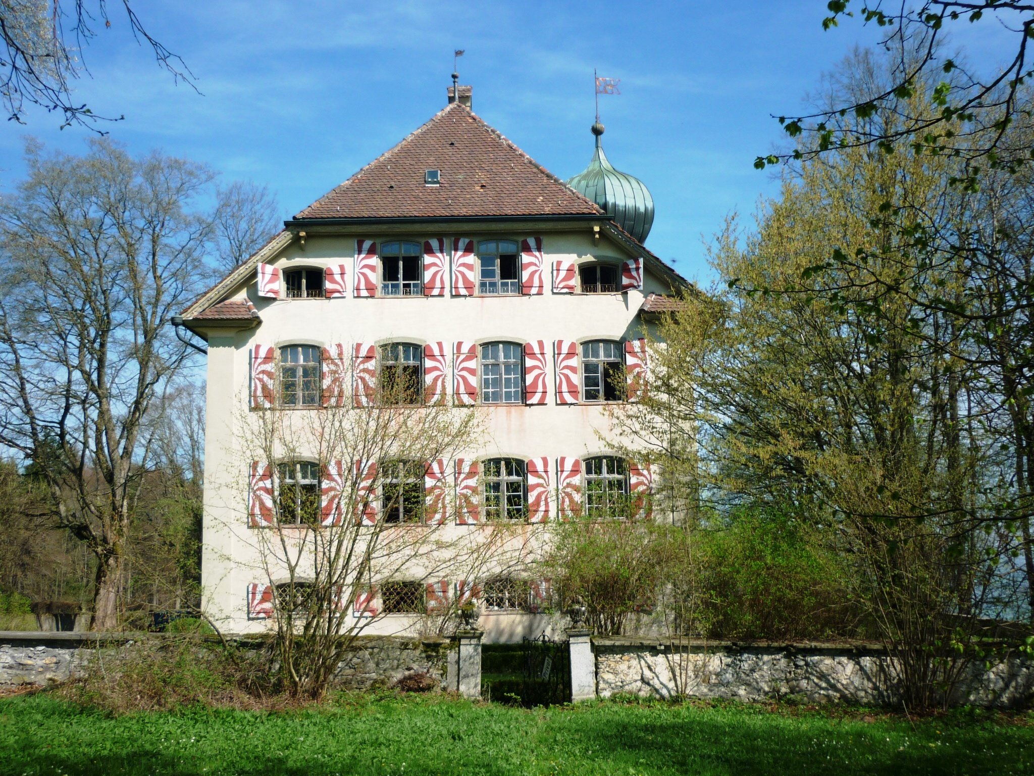 Horben castle, Beinwil Freiamt AG, Switzerland Schloss Horben, Beinwil Freiamt AG, Schweiz